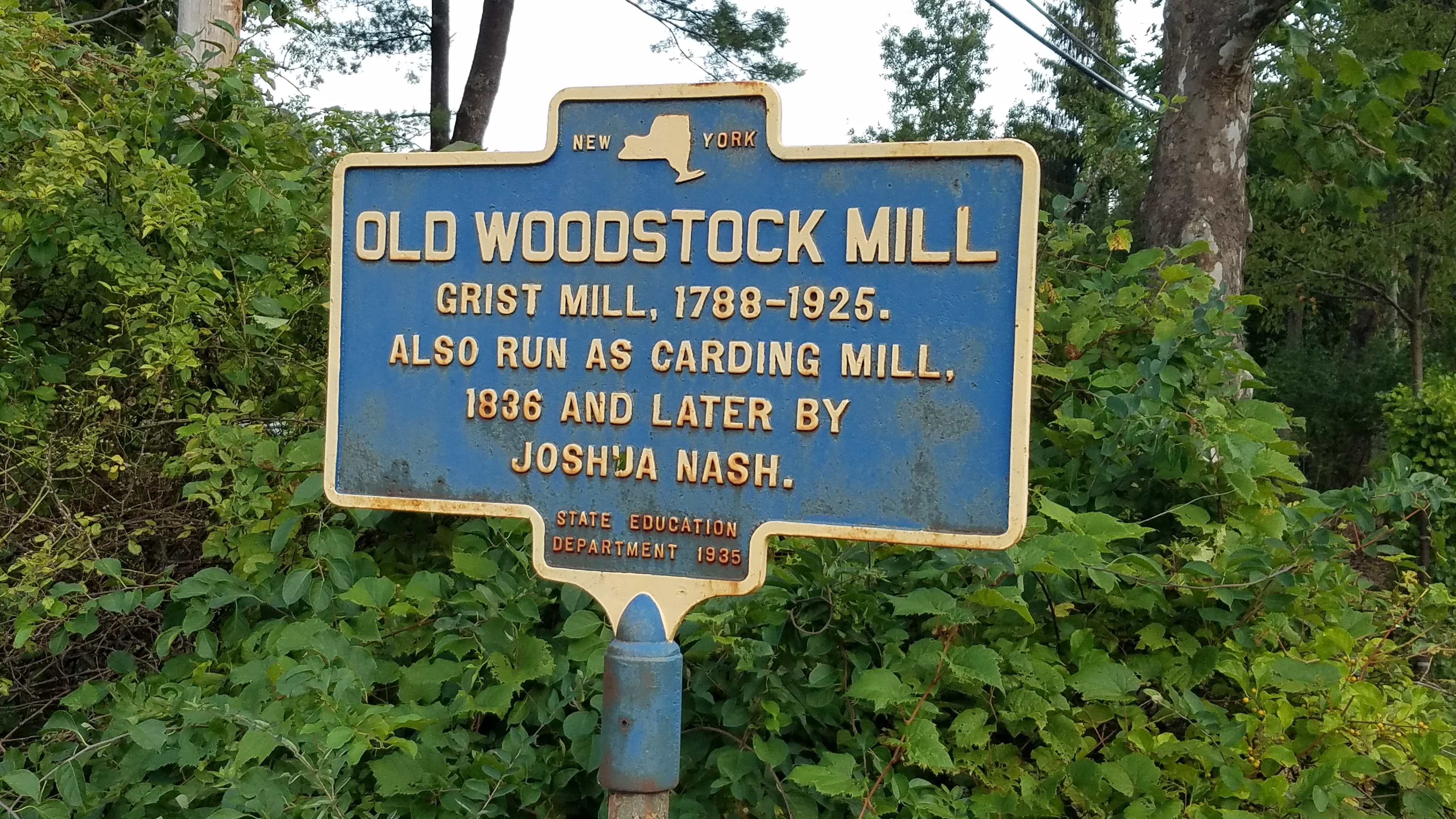 New York State Historical marker for the Old Woodstock Mill